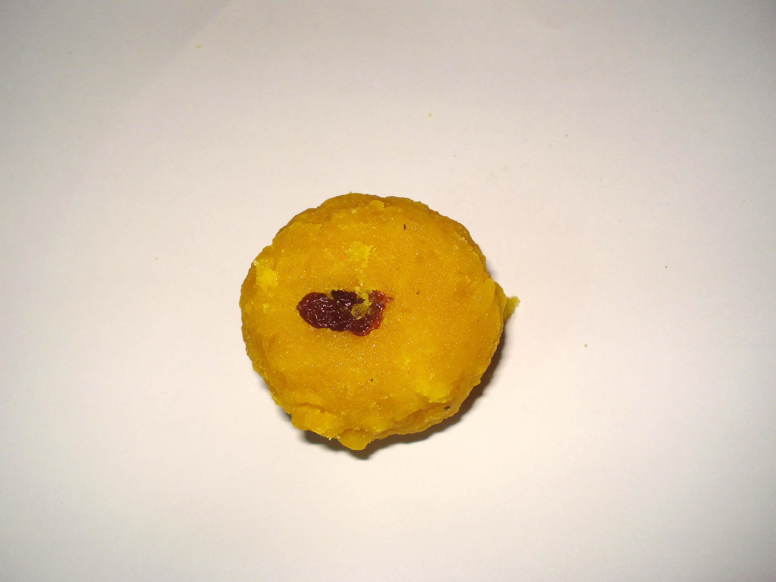 A sweet food item in India.